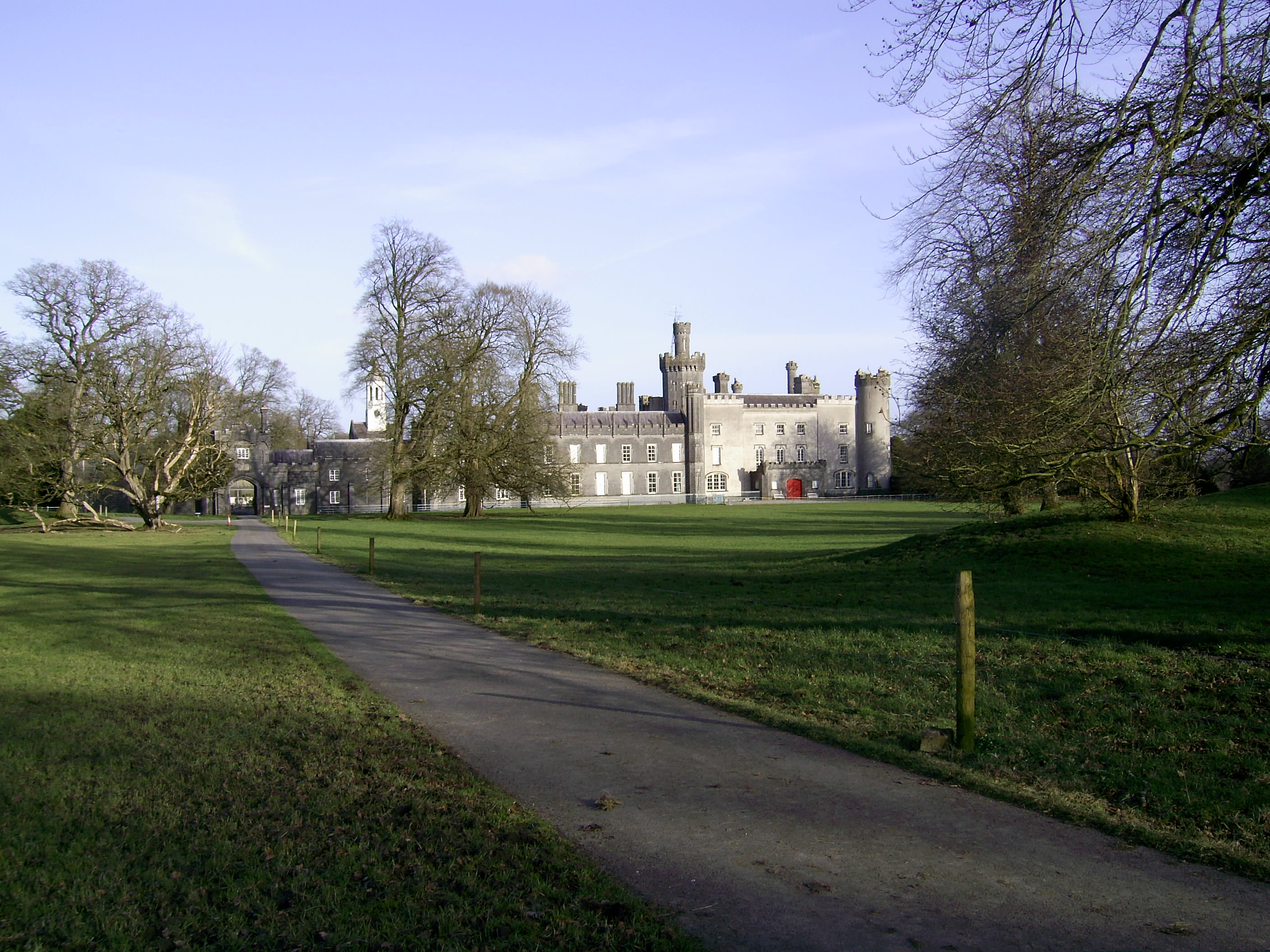 Tully_Nally_Castle_or_Packenham_Hall_Castle.jpg